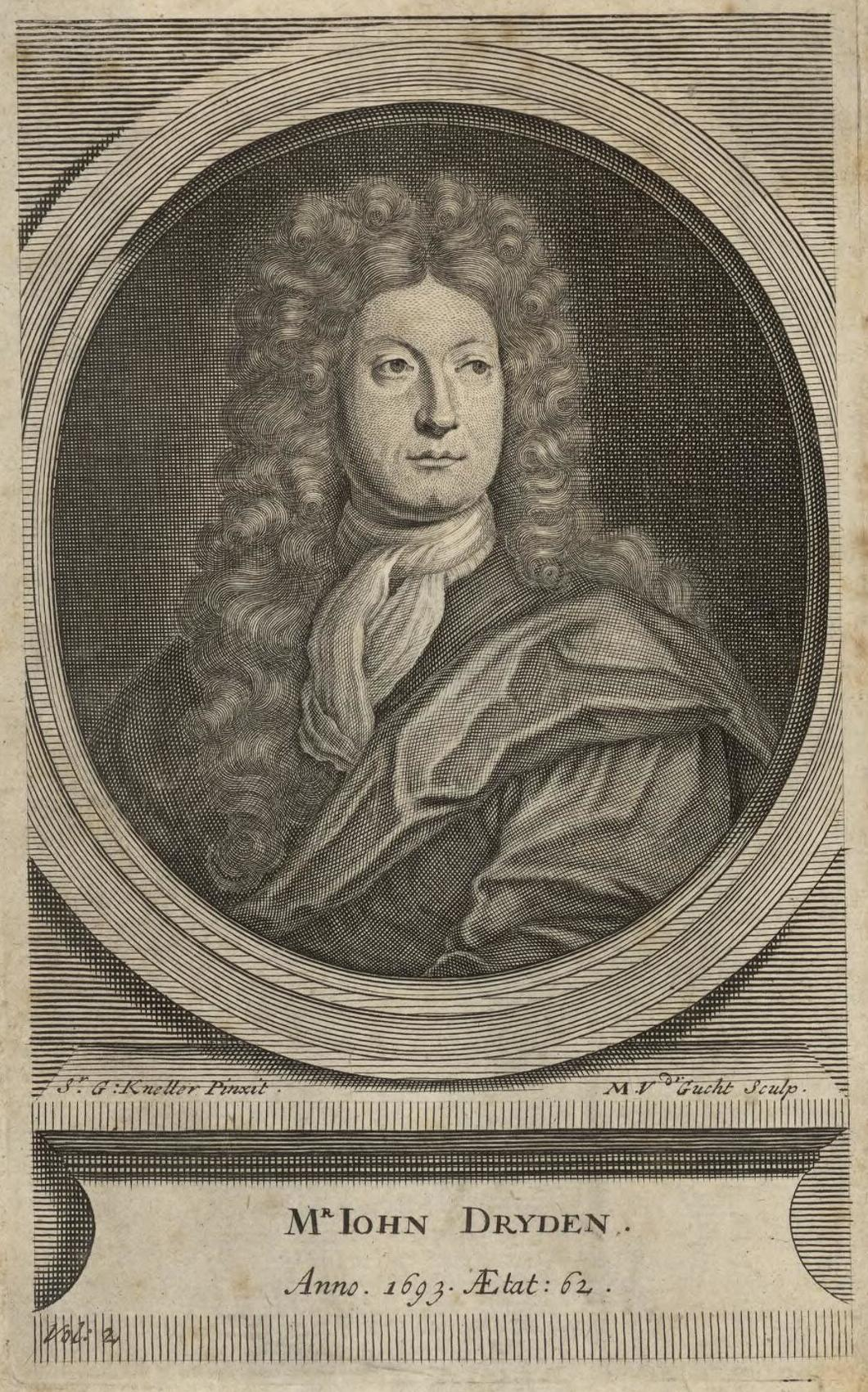 A portrait from the Welsh Portrait Collection at the National Library of Wales. Depicted person: John Dryden – English poet and playwright